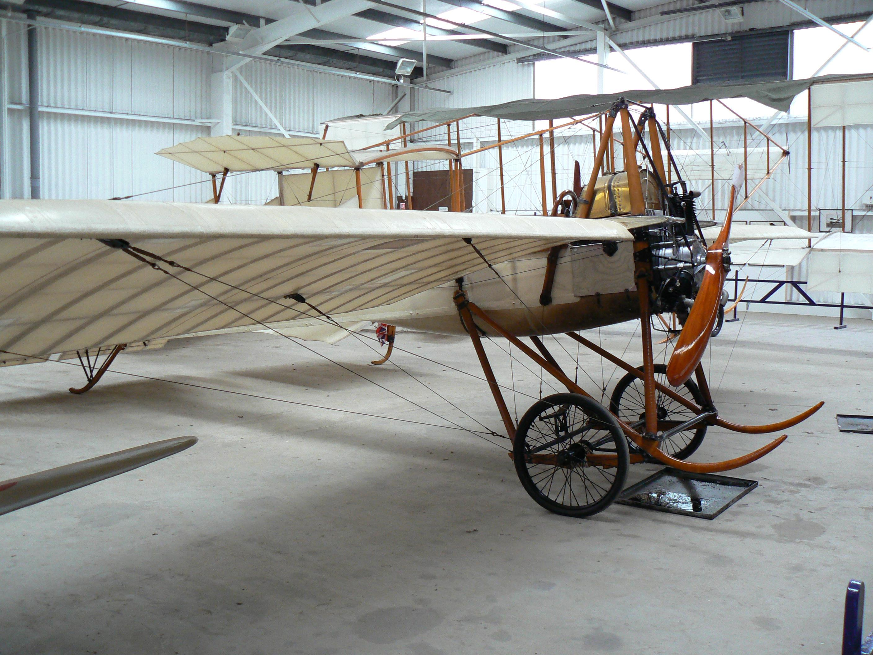 1910 Deperdussin Shuttleworth Collection